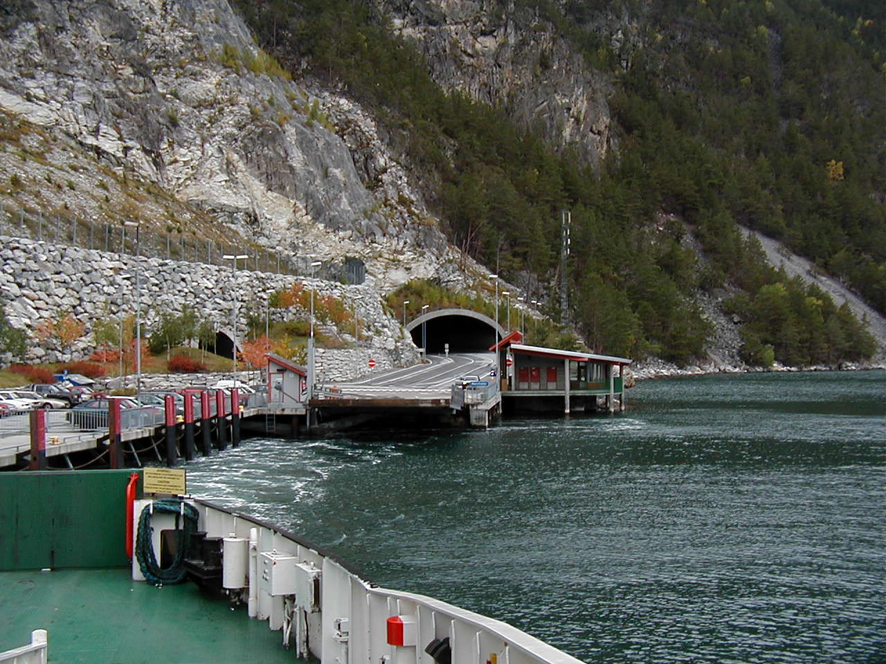 Mannheller ferry slip on riksvei 5 (national road 5) in Sogn og Fjordane county (fylke), Norway. In the background you can see the southeast entrance to Amlatunnelen (road tunnel).